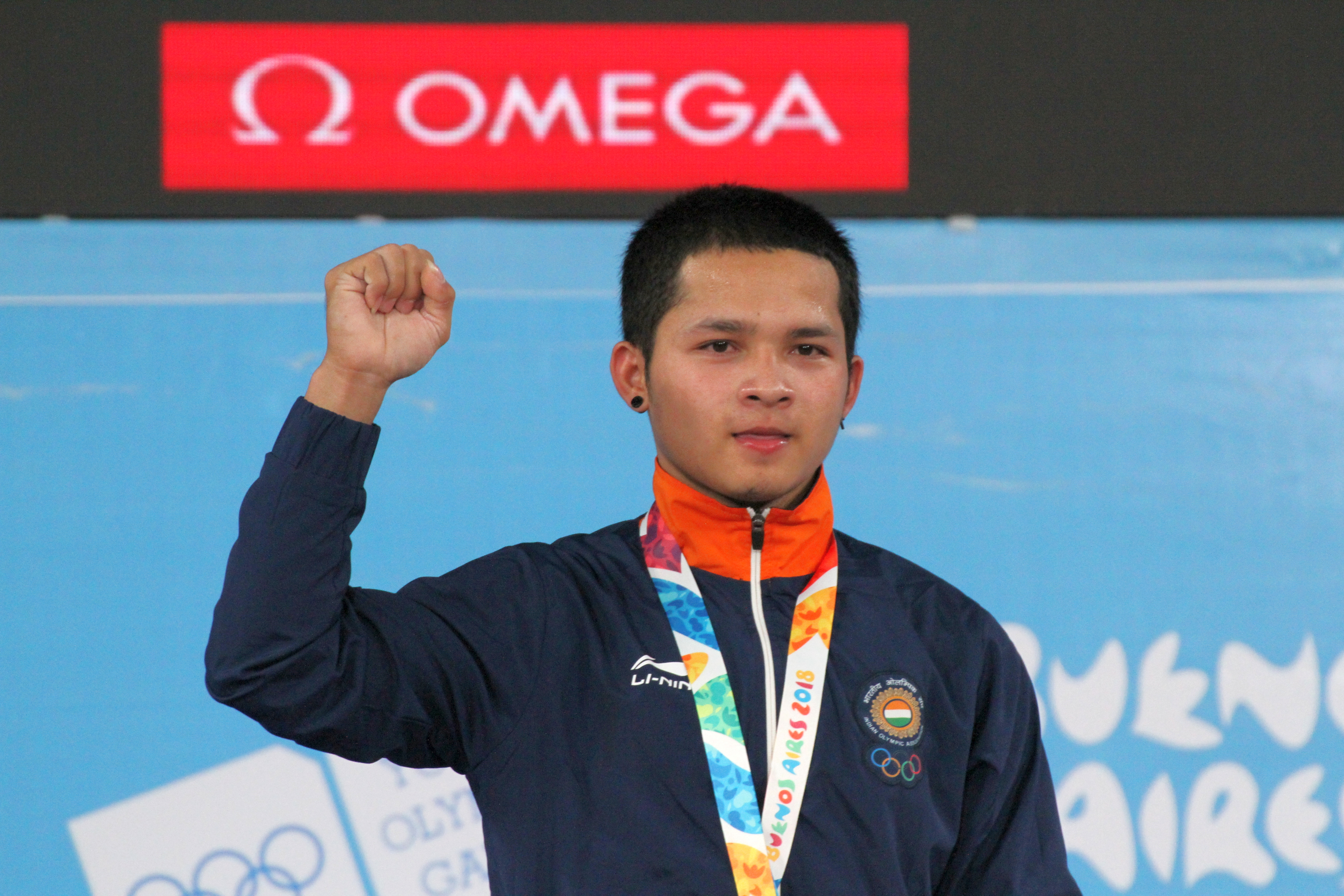 Weightlifting at the 2018 Summer Youth Olympics at 8 October 2018 – Boys' 62 kg